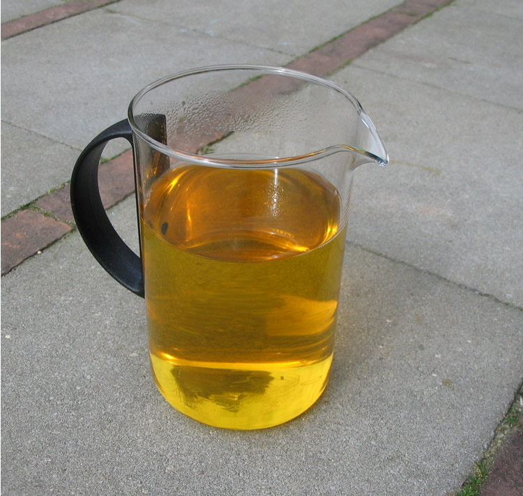 Worldwide: various ecosan teaching photos